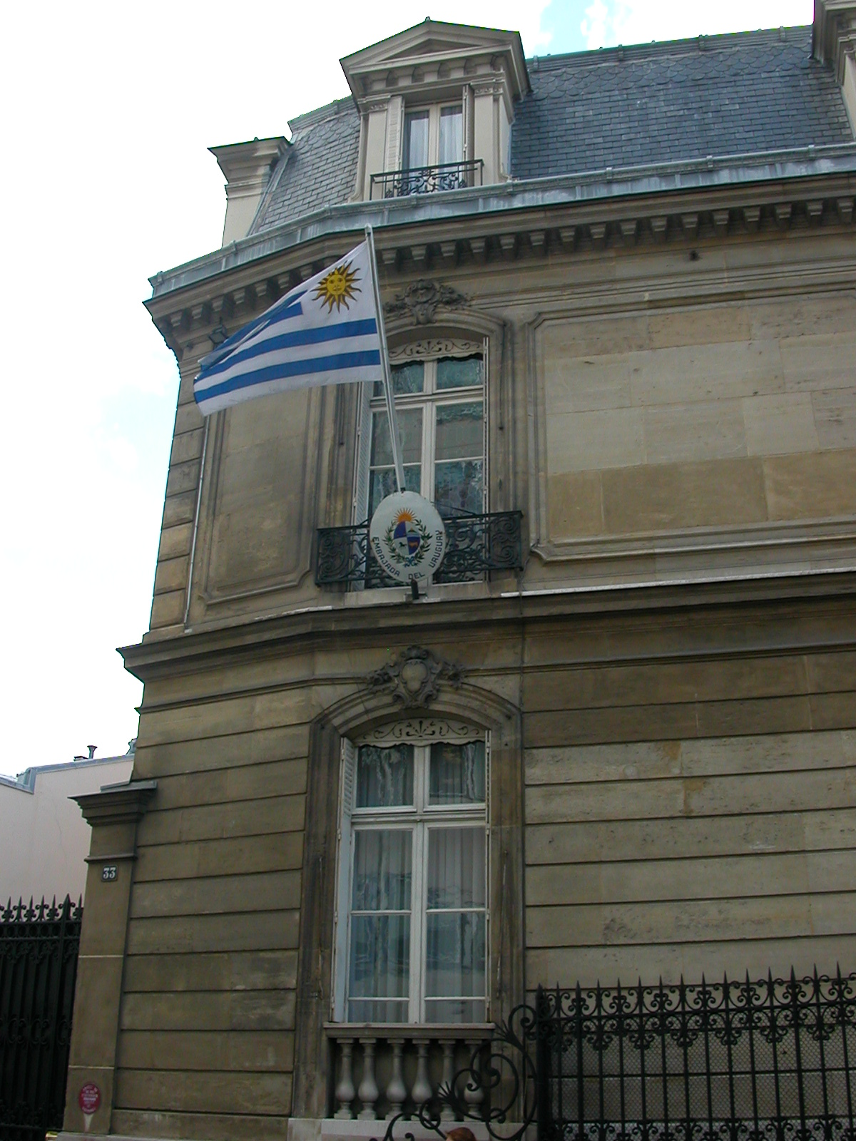 Uruguayan embassy in France, Paris